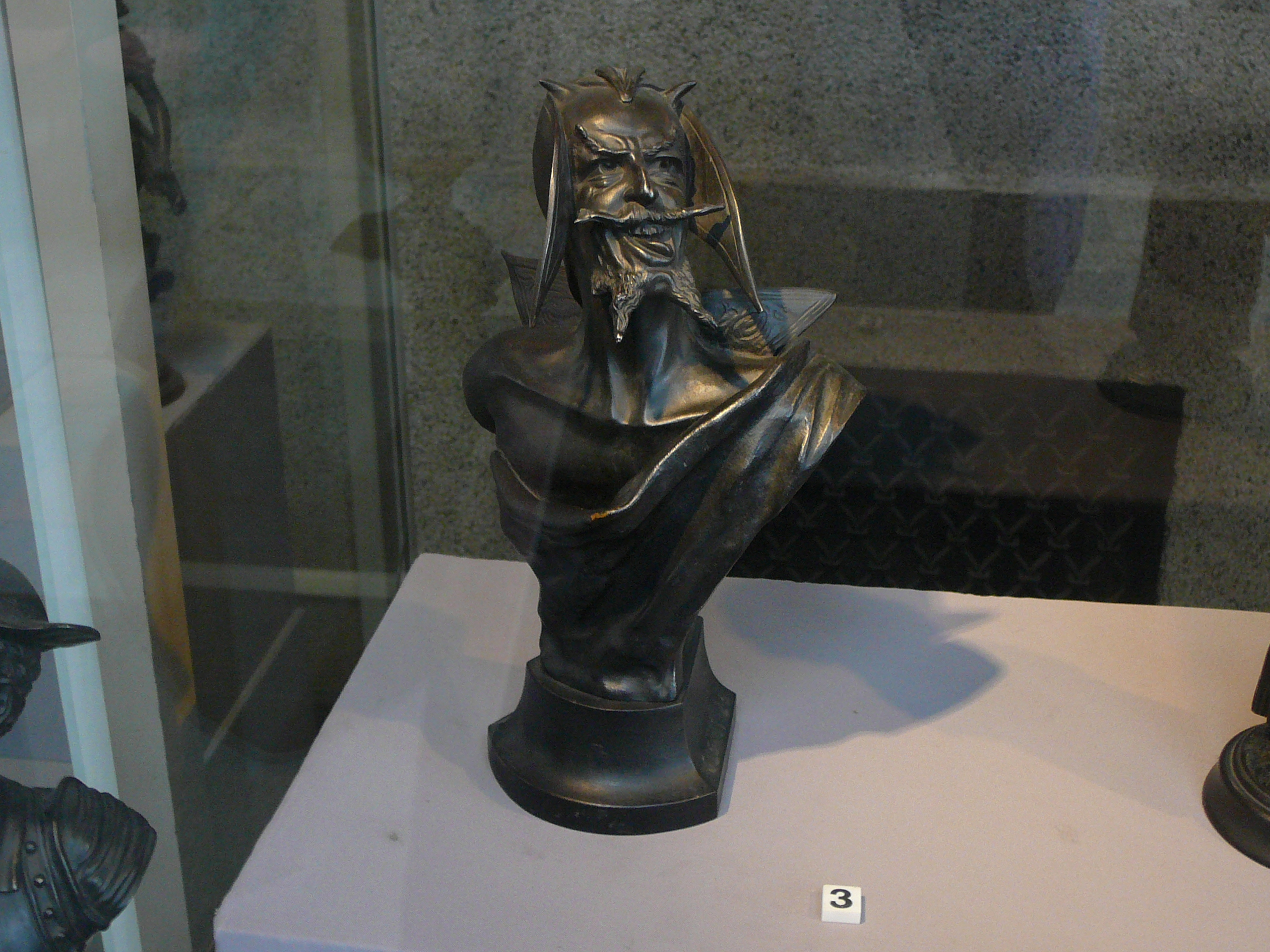 On the photo depicted a bust of the legendary Wolfgang Goethe's Mephistopheles, created by Felix Gustave Morelli (1848-1909) in 1903